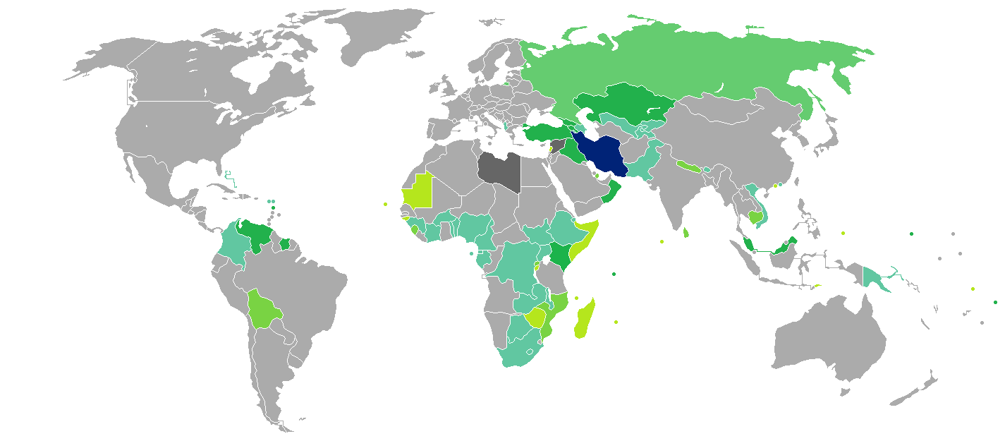 Visa requirements for Iranian citizens Iran Visa free access Visa on arrival eVisa Visa available both on arrival or online Visa required Admission refused